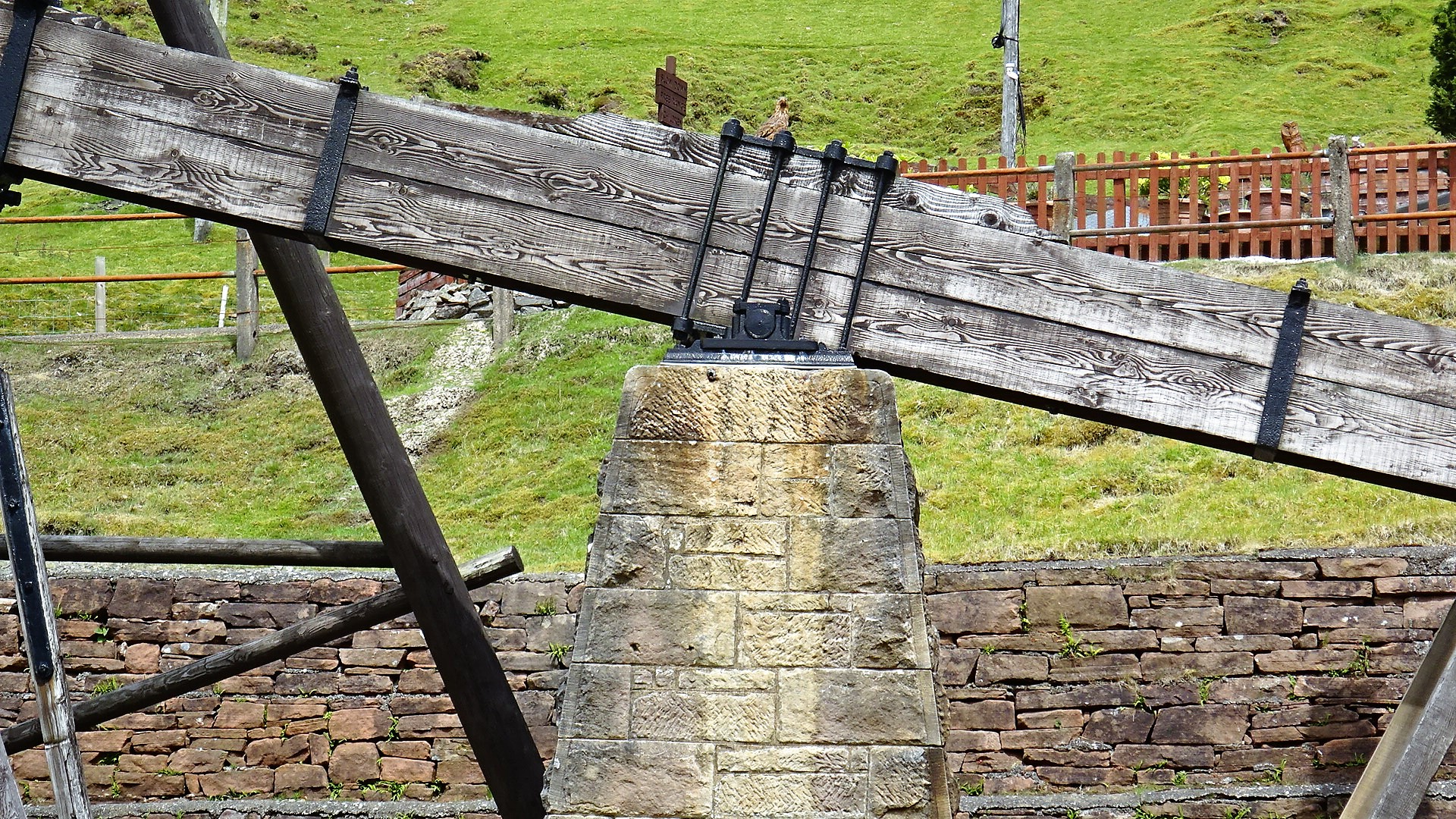 Wanlockhead beam engine, detail of the beam and column, Scotland. Also known as a bucket engine.